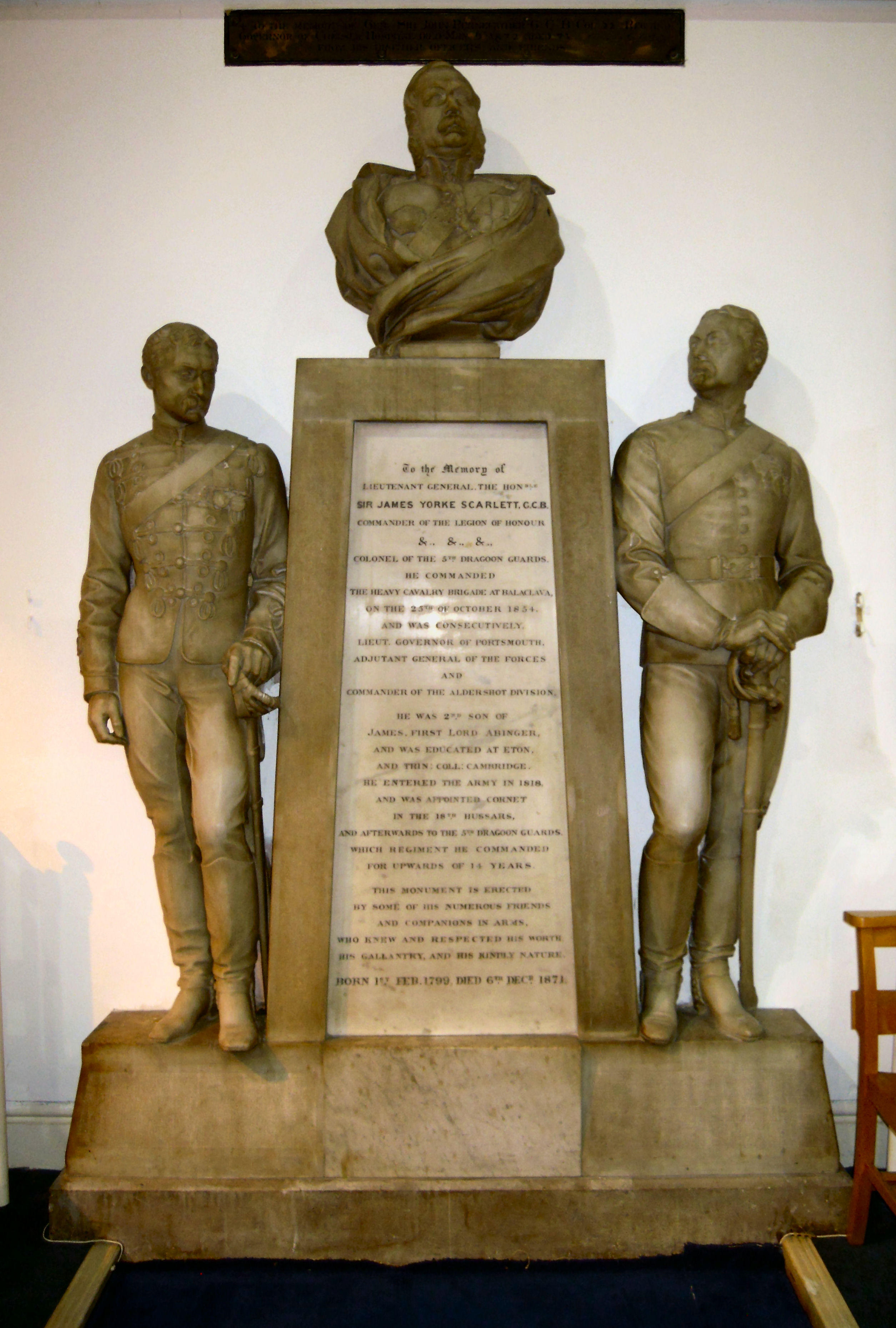 Memorial at the Royal Garrison Church in Aldershot to James Yorke Scarlett